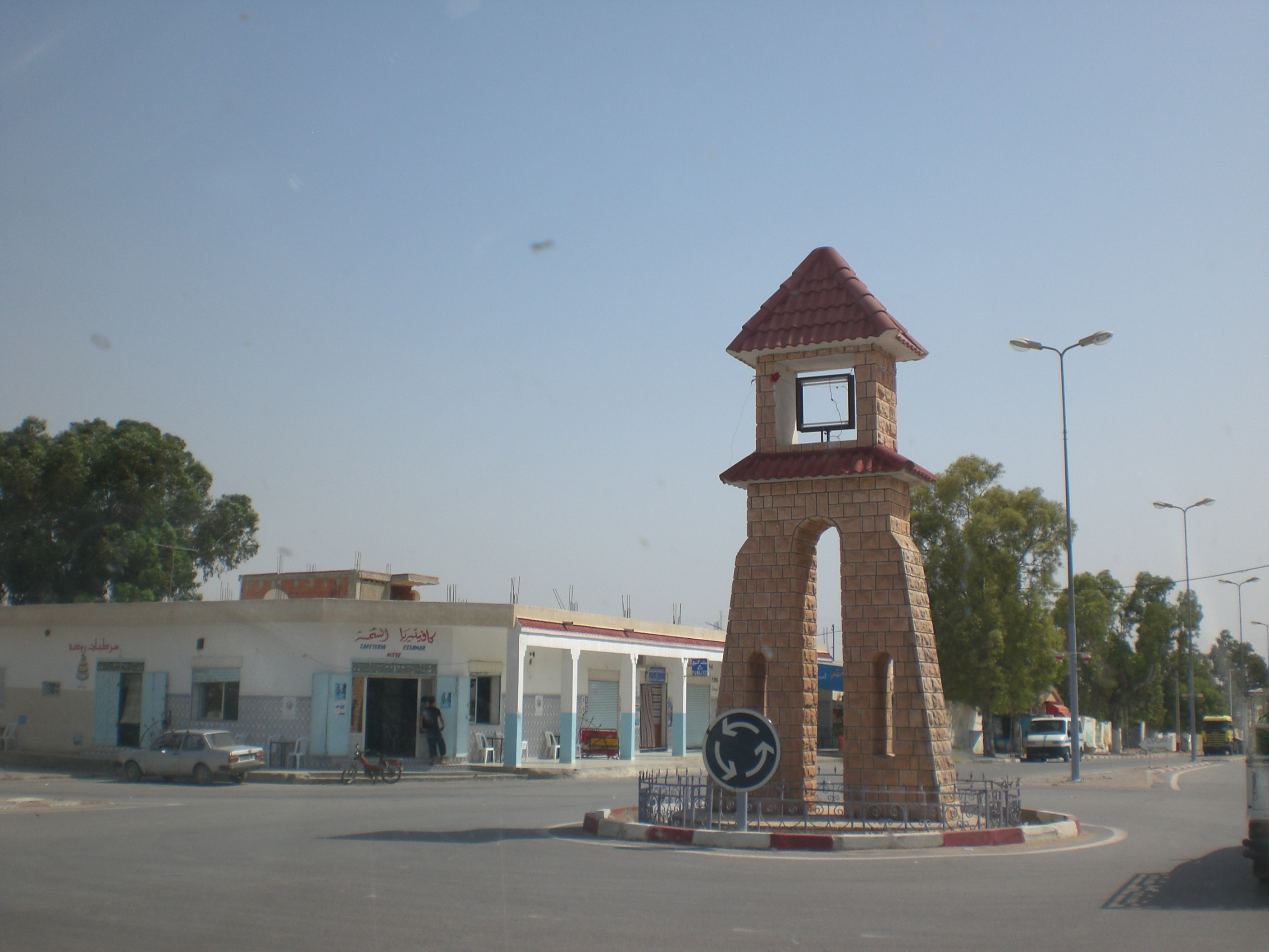 Gaafour, Tunisian town